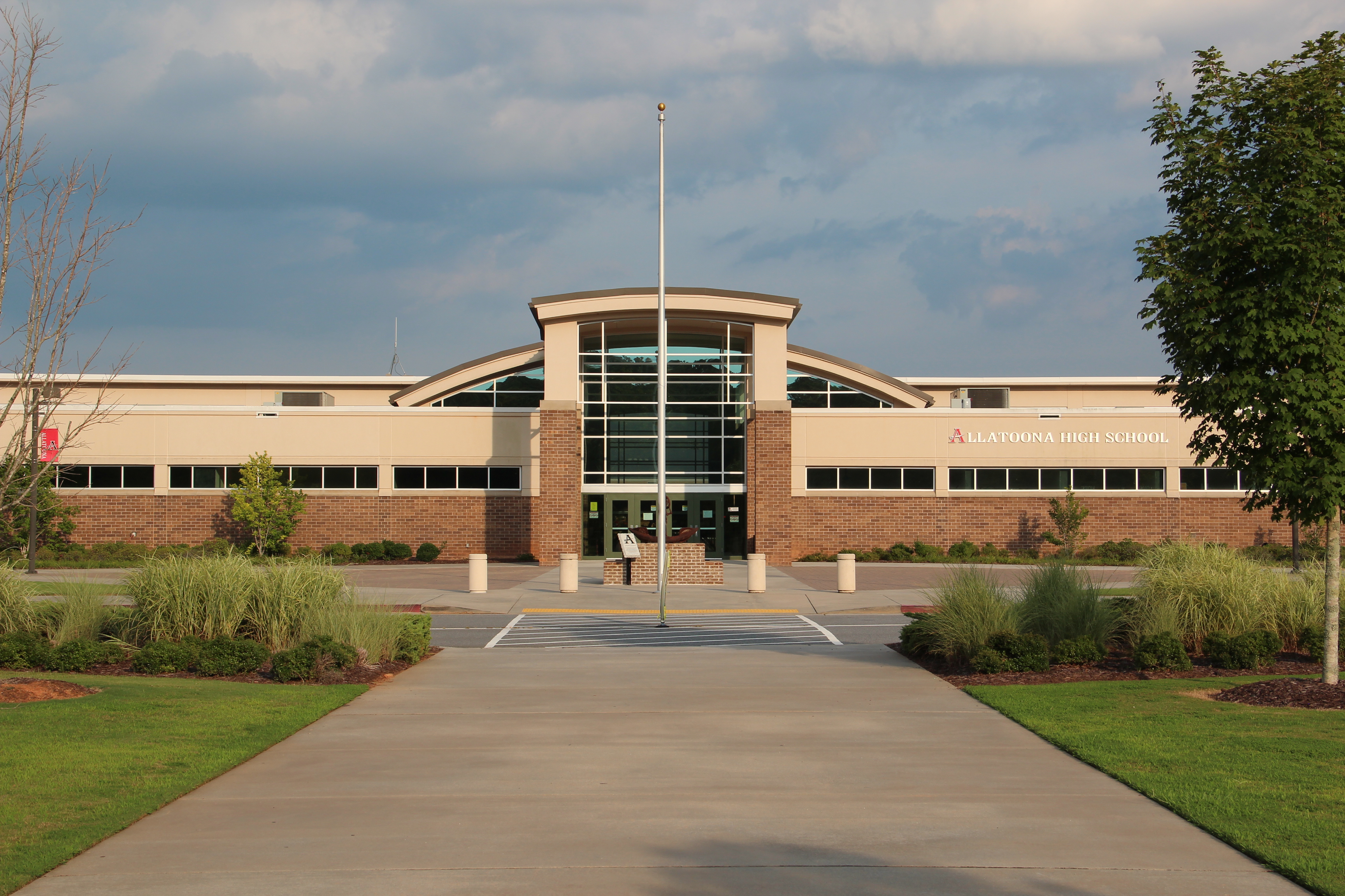 Allatoona High School